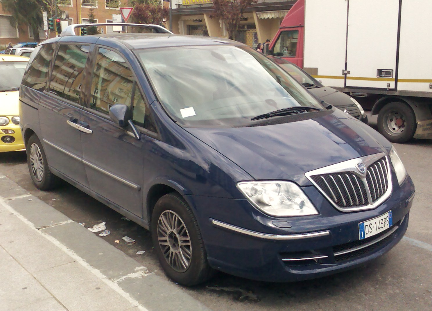 Lancia Phedra